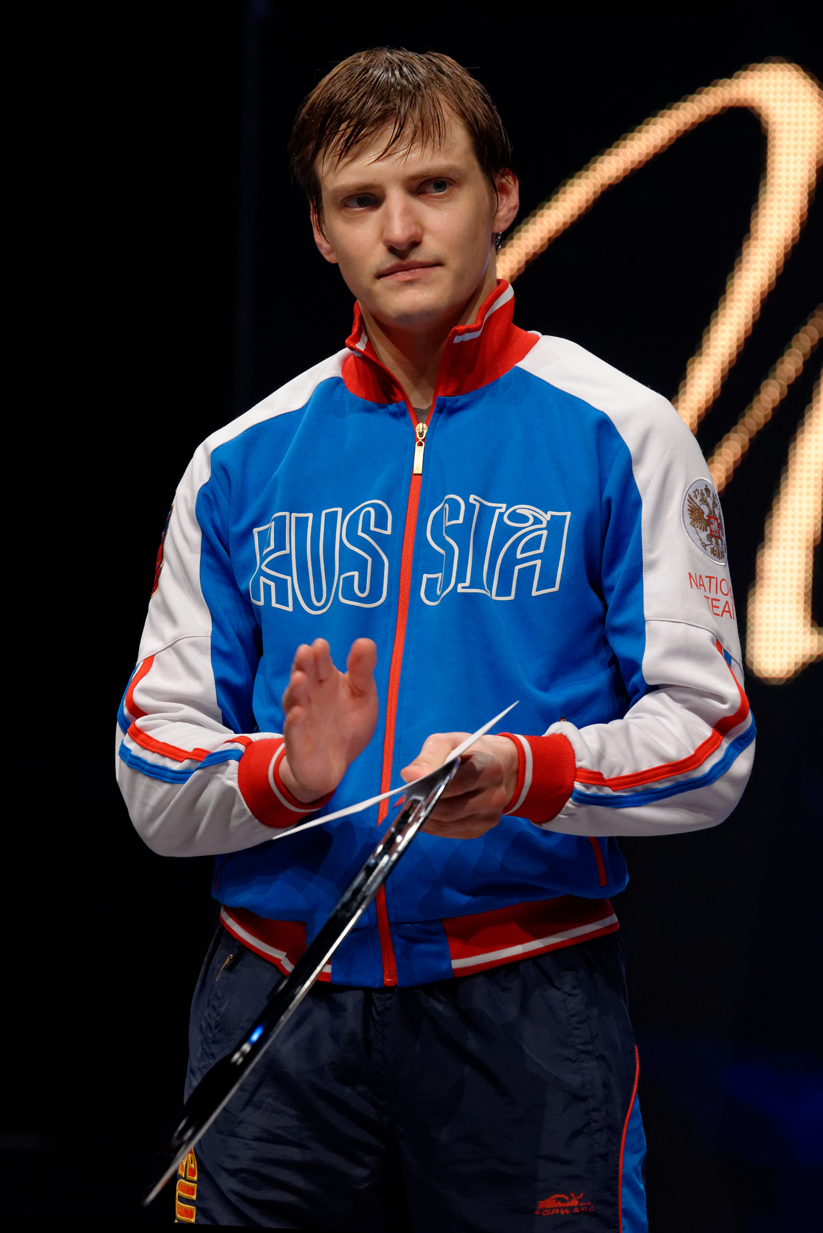 Russia's Aleksey Cheremisinov is presented with his trophy at the award ceremony of the opening of the 2014 Master de Fleuret Melun Val de Seine.